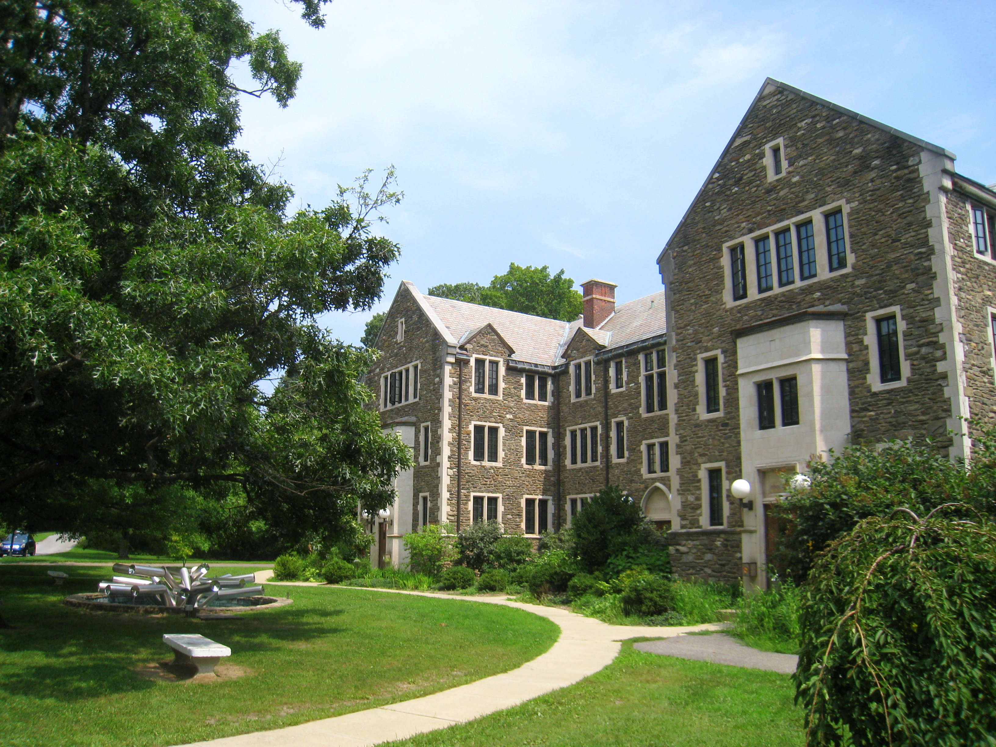 Bard College, Annandale-on-Hudson, New York, USA.